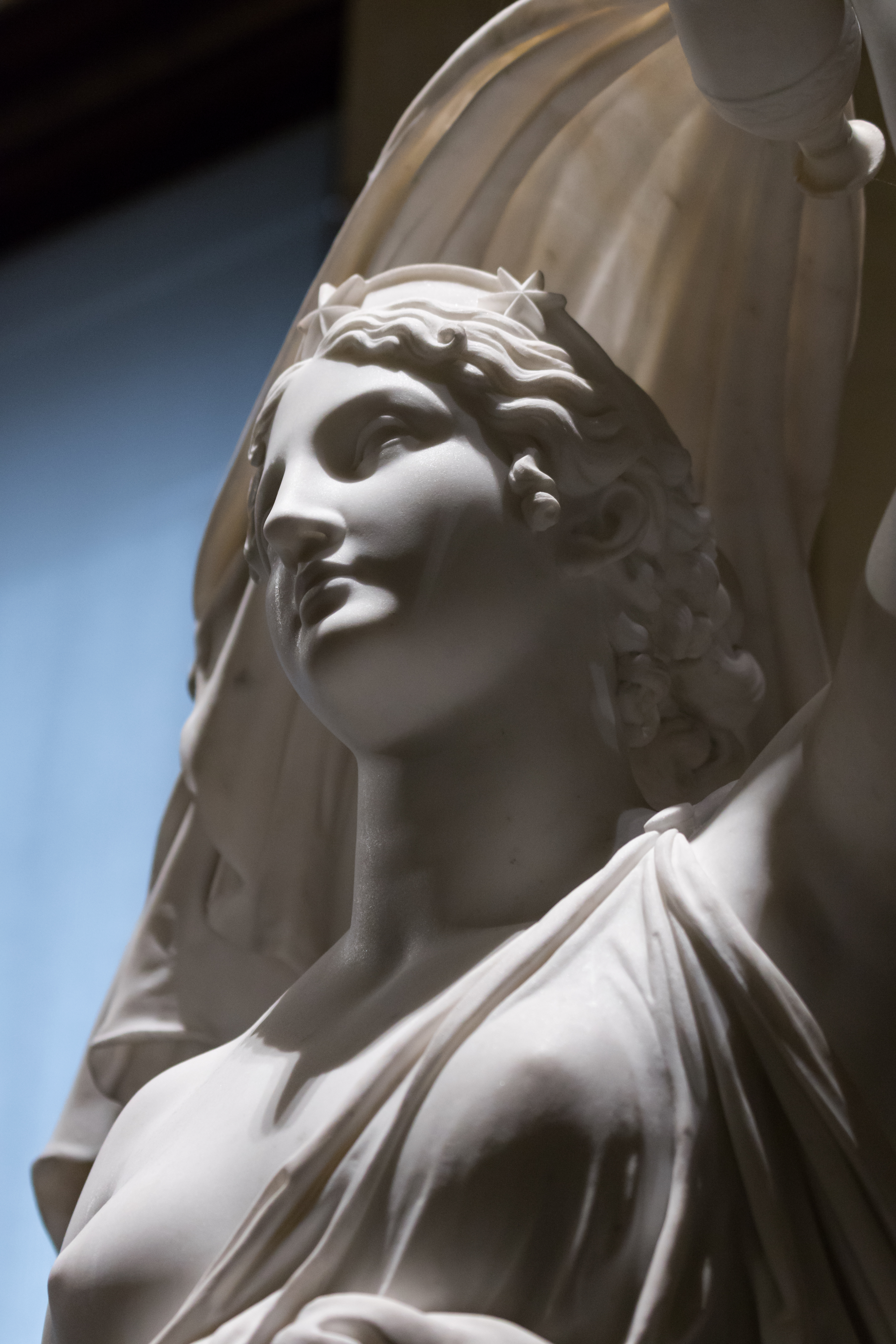 Gaetano Matteo Monti: Iris as goddess of the rainbow (1841, marble) at Kunsthistorisches Museum in Vienna, Austria. Dieses Bild wurde anlässlich des österreichischen Tags des Denkmals 2016 in Wien eingereicht.